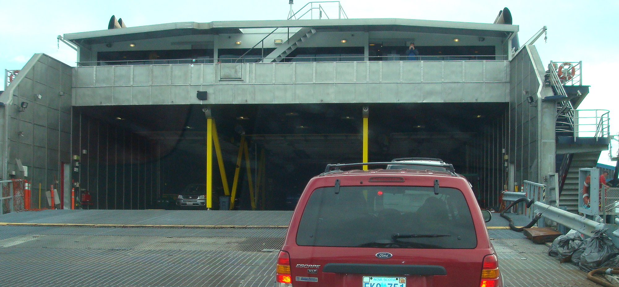 Boarding the CAT ferry, heading to Yarmouth, NS in Bar Harbor, ME